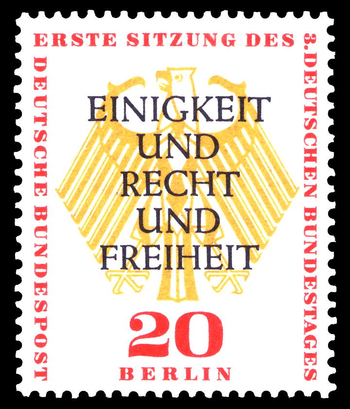 stamp for first meeting of the 3rd Deutscher Bundestag in Berlin